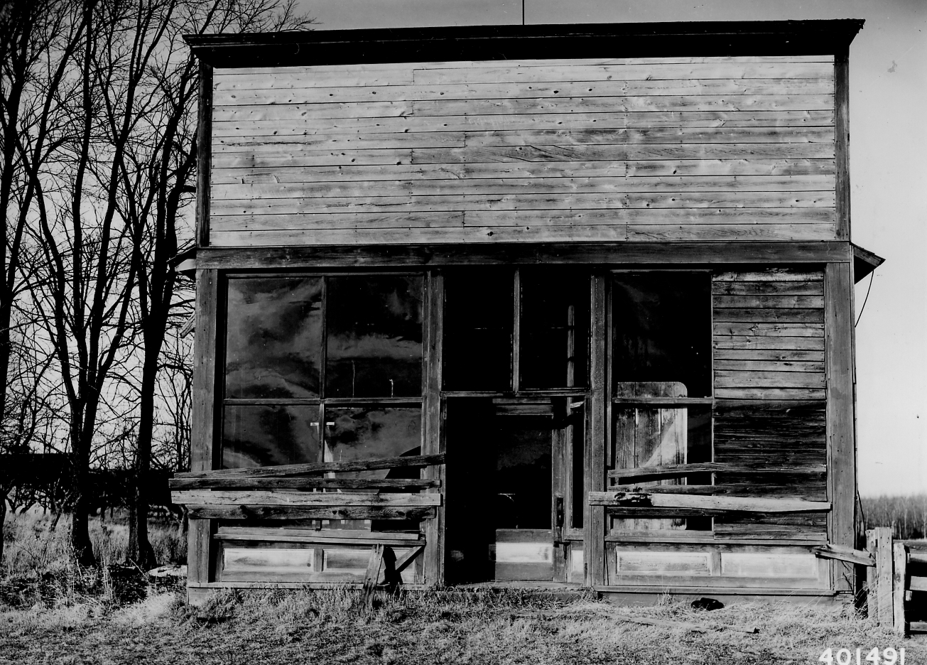 Scope and content: Original caption: Abandoned general store at Oneva, Wis. (ghost sawmill community) on Wisconsin State Highway 32, about 15 miles south of Laona, Wis.